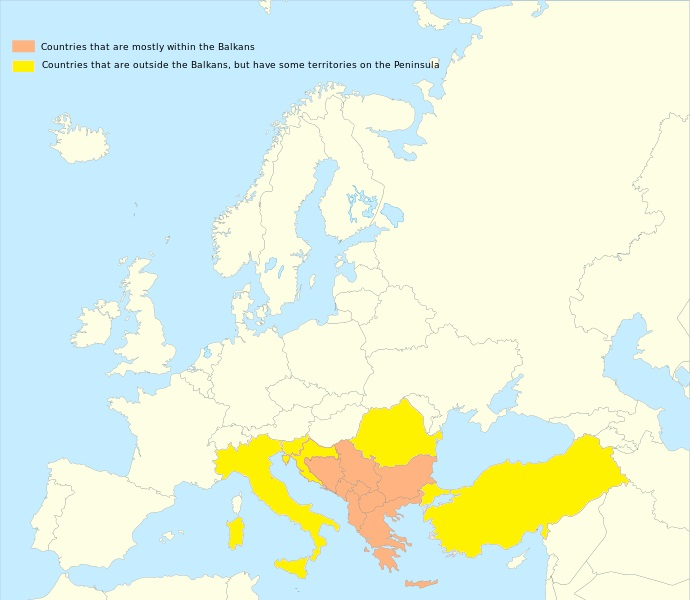 Dark coloured countries belong to Balkans